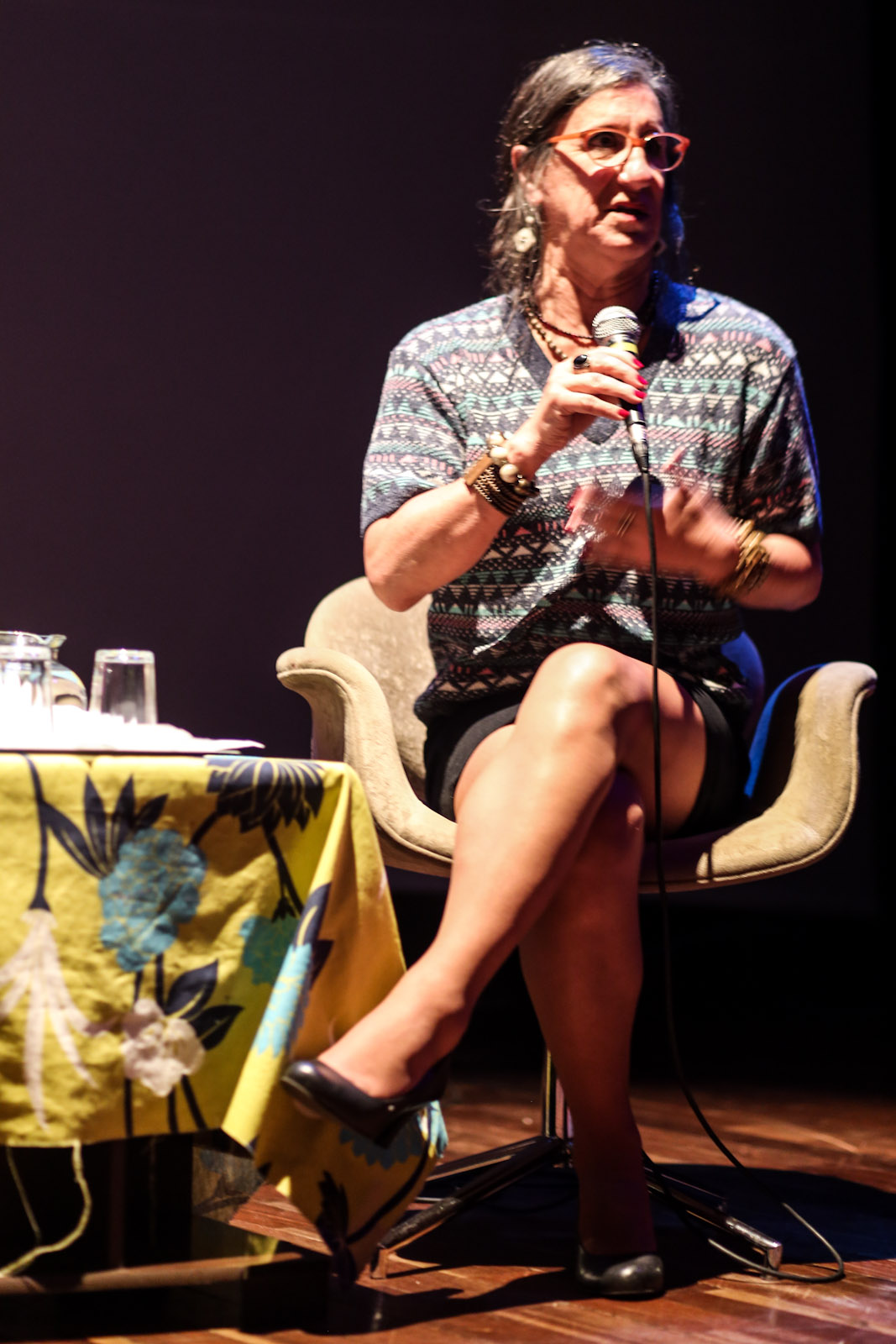 Laerte Coutinho is a Brazilian cartoonist.